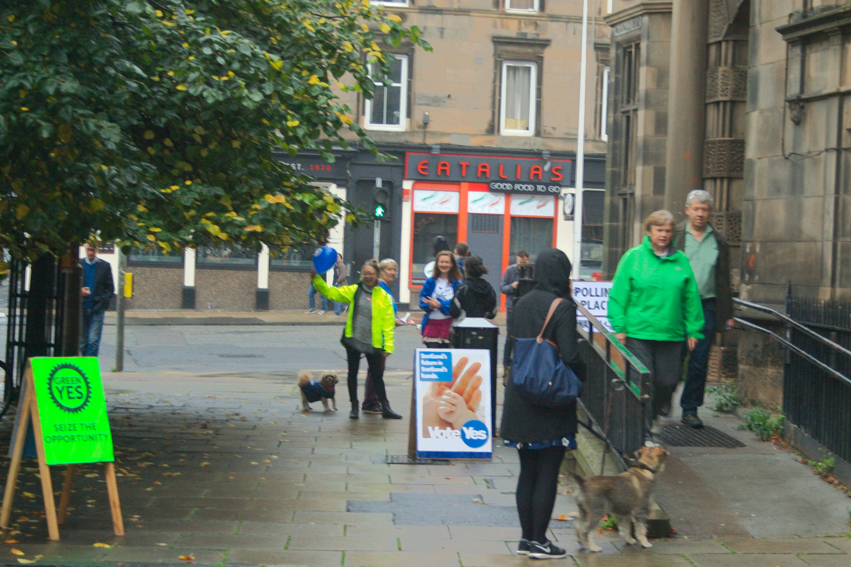 Macdonald Road Library polling station, morning of referendum.